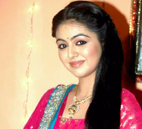 Shafaq Naaz at Sony launches 'Shubh Vivah' show